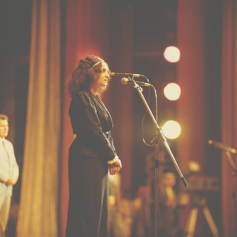 "Leonida Lari's Moldavian poetess" (the end of 80th years).